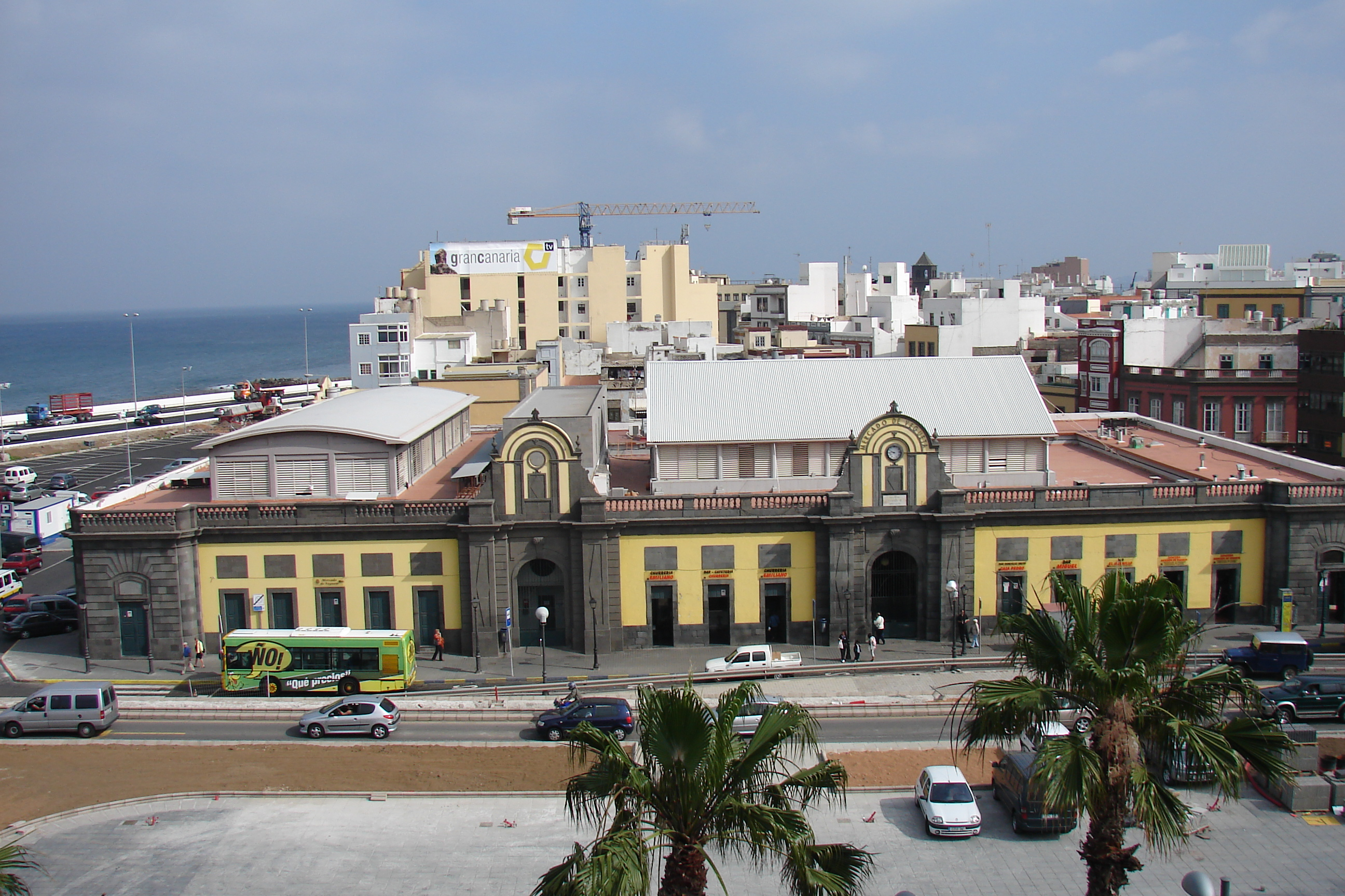 Vegueta Market